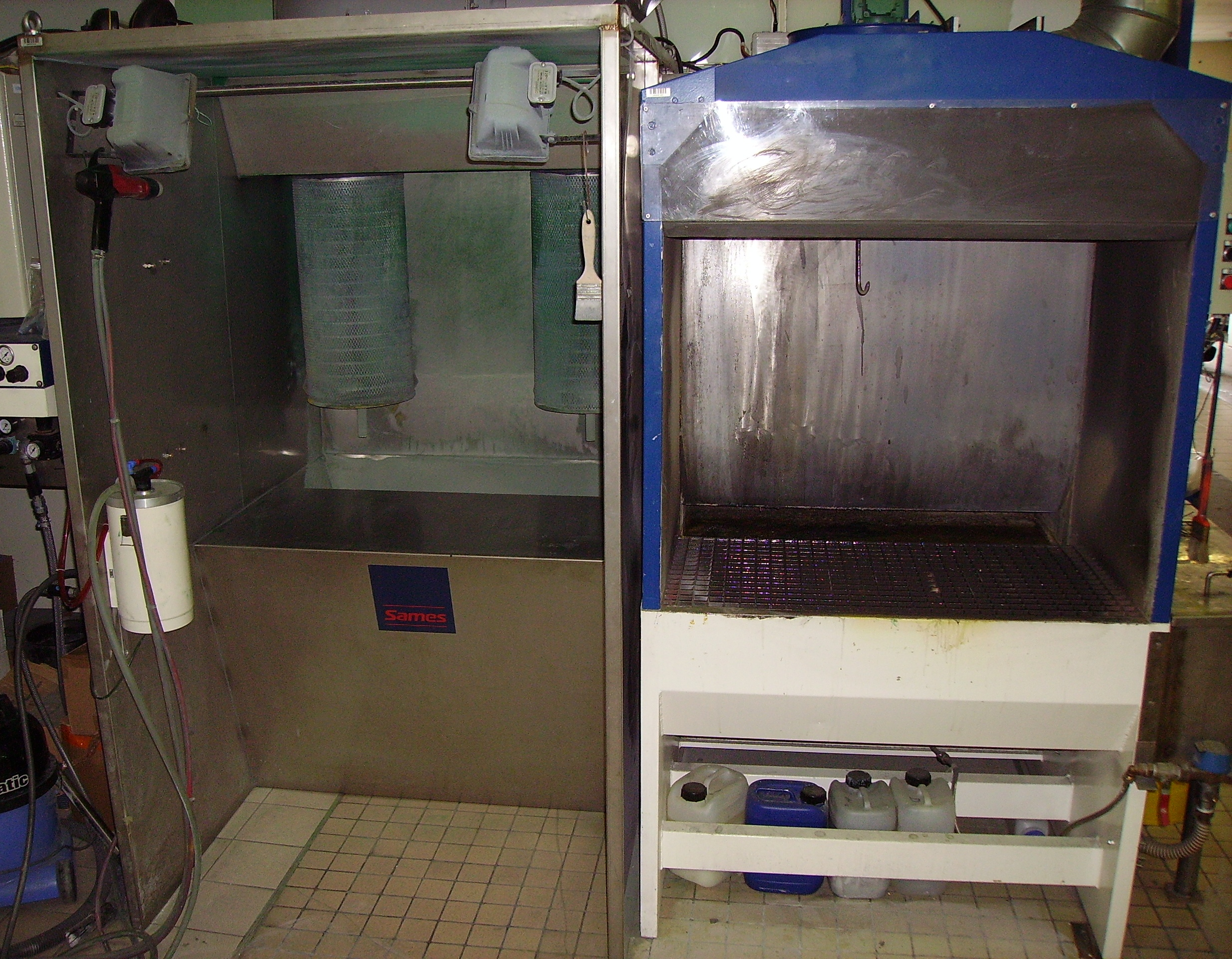 Paint booths. Used for spray application.